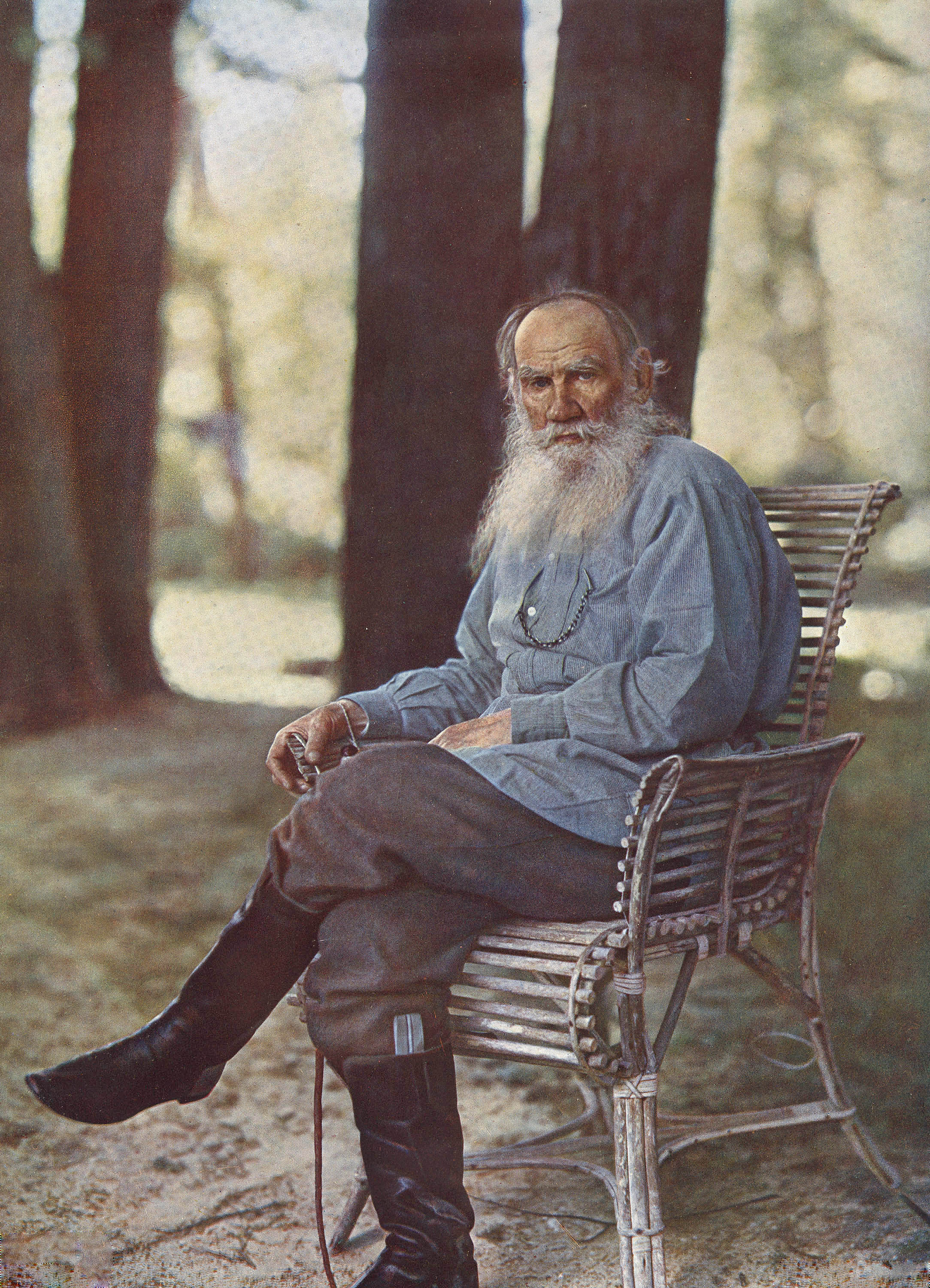 "Lev Tolstoy in Yasnaya Polyana", 1908, the first color photo portrait in Russia.